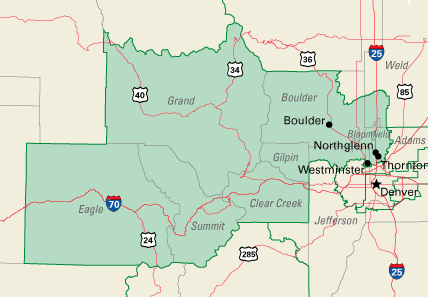 From